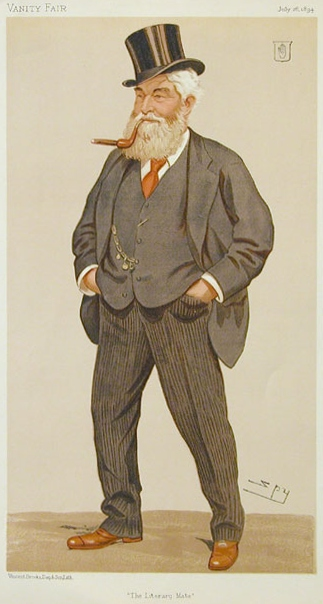 Caricature of Sir John Dugdale Astley, 3rd Baronet. Caption read "The Literary Mate".